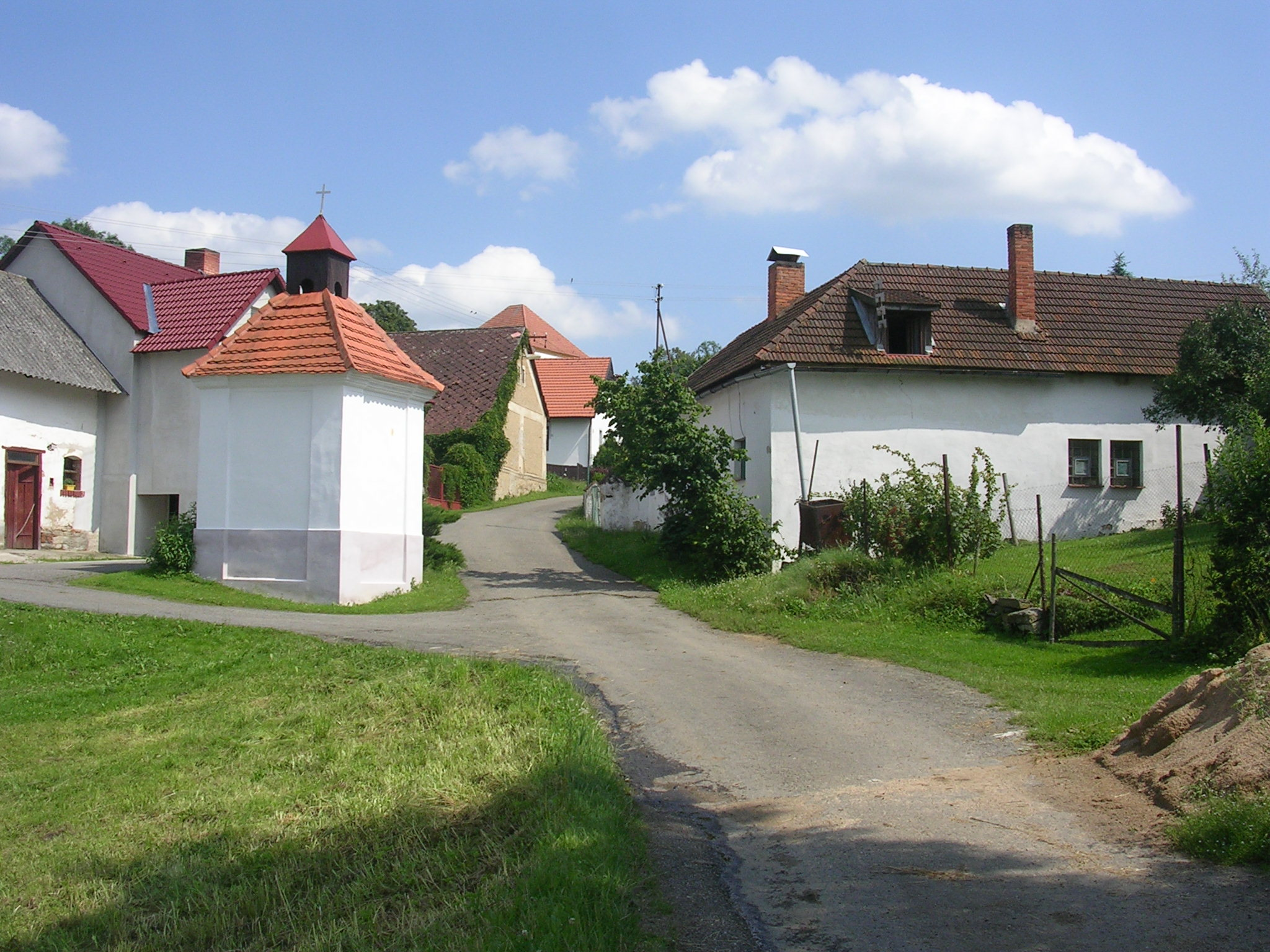 Krásná Hora nad Vltavou-Plešiště, Příbram District, Central Bohemian Region, the Czech Republic.